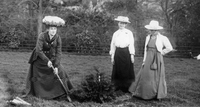 Florence Canning planting tree with Mary Blathwayt and Annie Kenney 1909. This picture was taken by Colonel Linley Blathwayt and was stored on glass negatives. The Blathwayt's home of Eagle House way the home of Linley, Emily and Mary Blathwayt who all actively supported the suffragette cause. Nearly all the prominient UK suffragettes stayed with them and these photos and dozens of trees were planted to commemorate their visits. Col. Linley Blathwayt took these pictures between 1908 and 1912. He died in 1919. The pictures are made available in larger formats by .